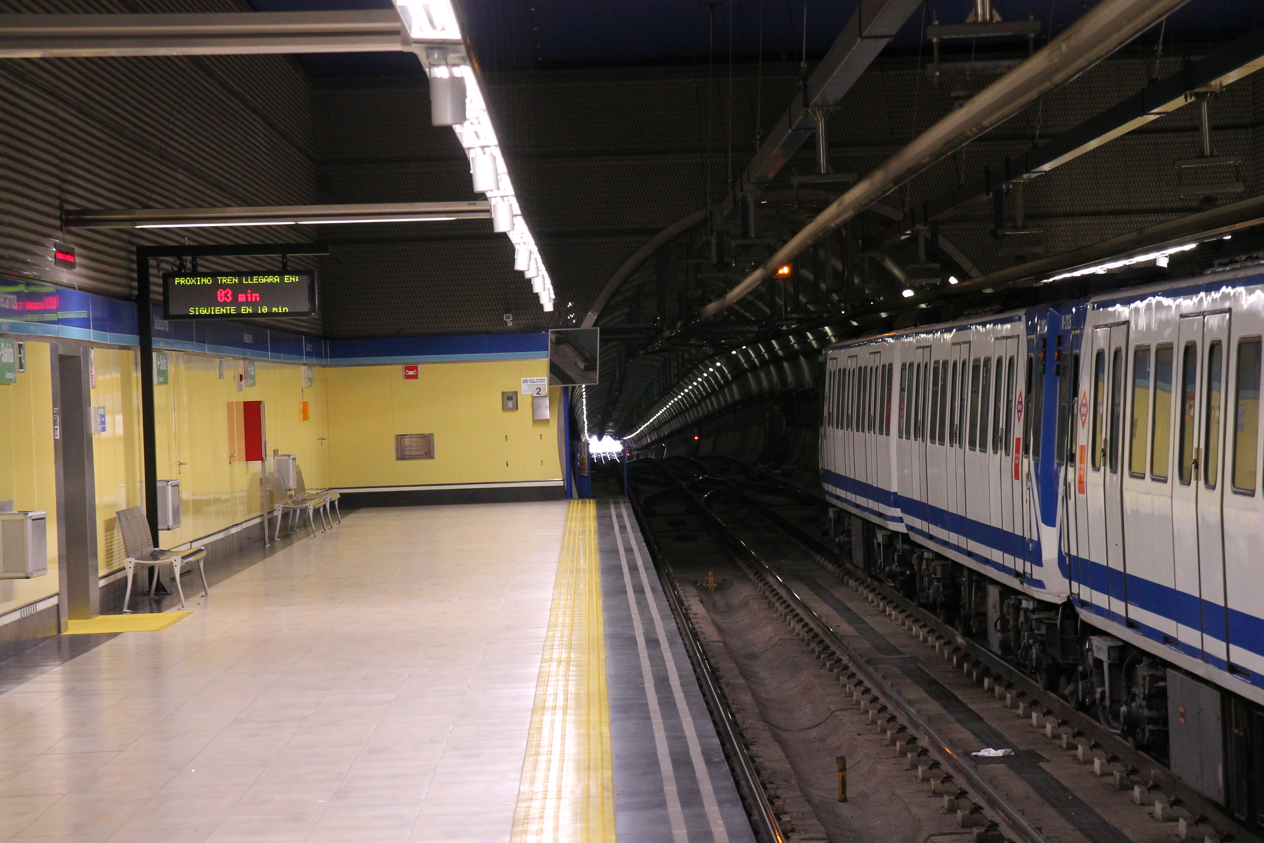 Estación de Valdecarros